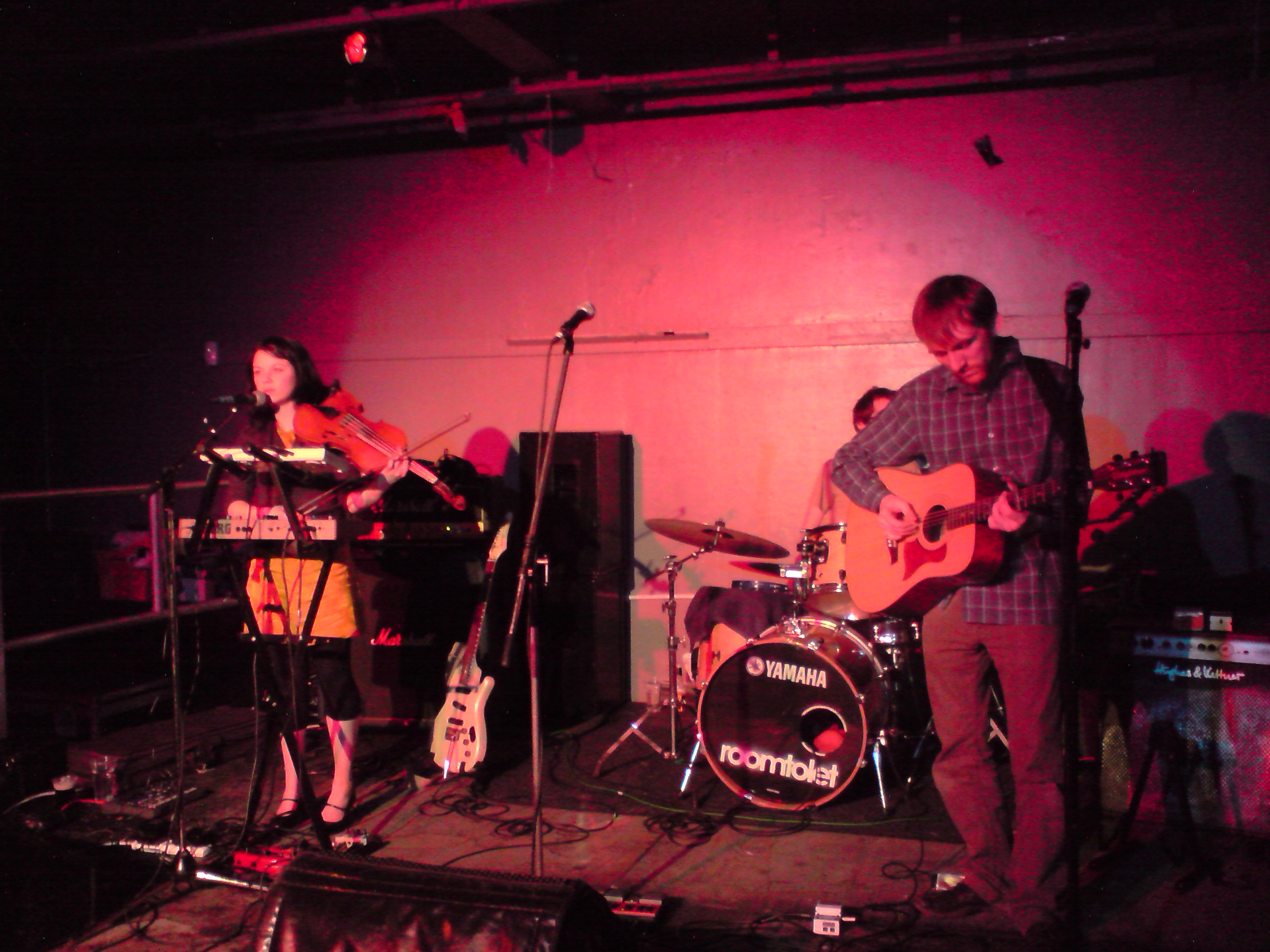 Zoey Van Goey at New Breed